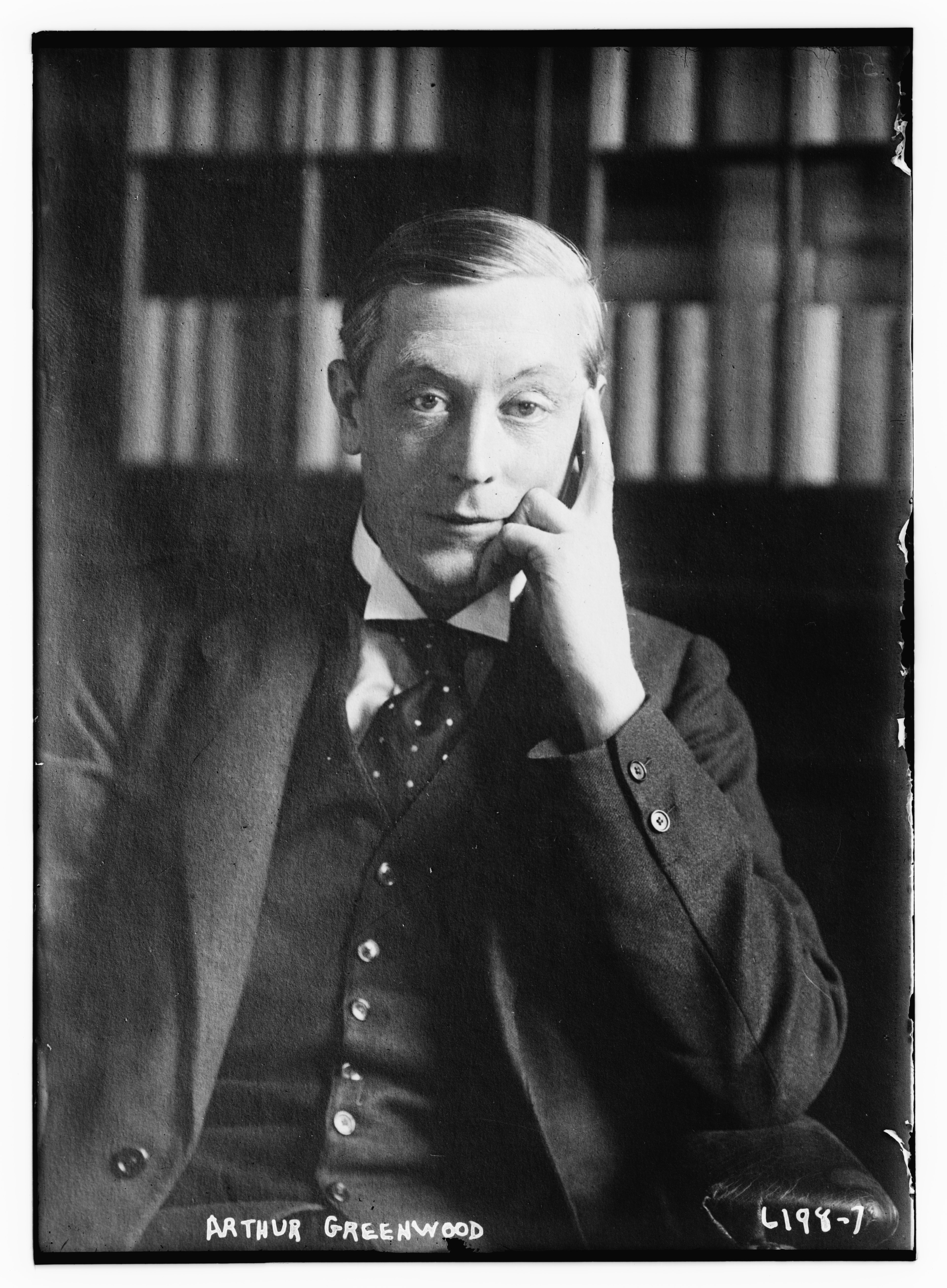 Title: Arthur Greenwood Abstract/medium: 1 negative : glass ; 5 x 7 in. or smaller.